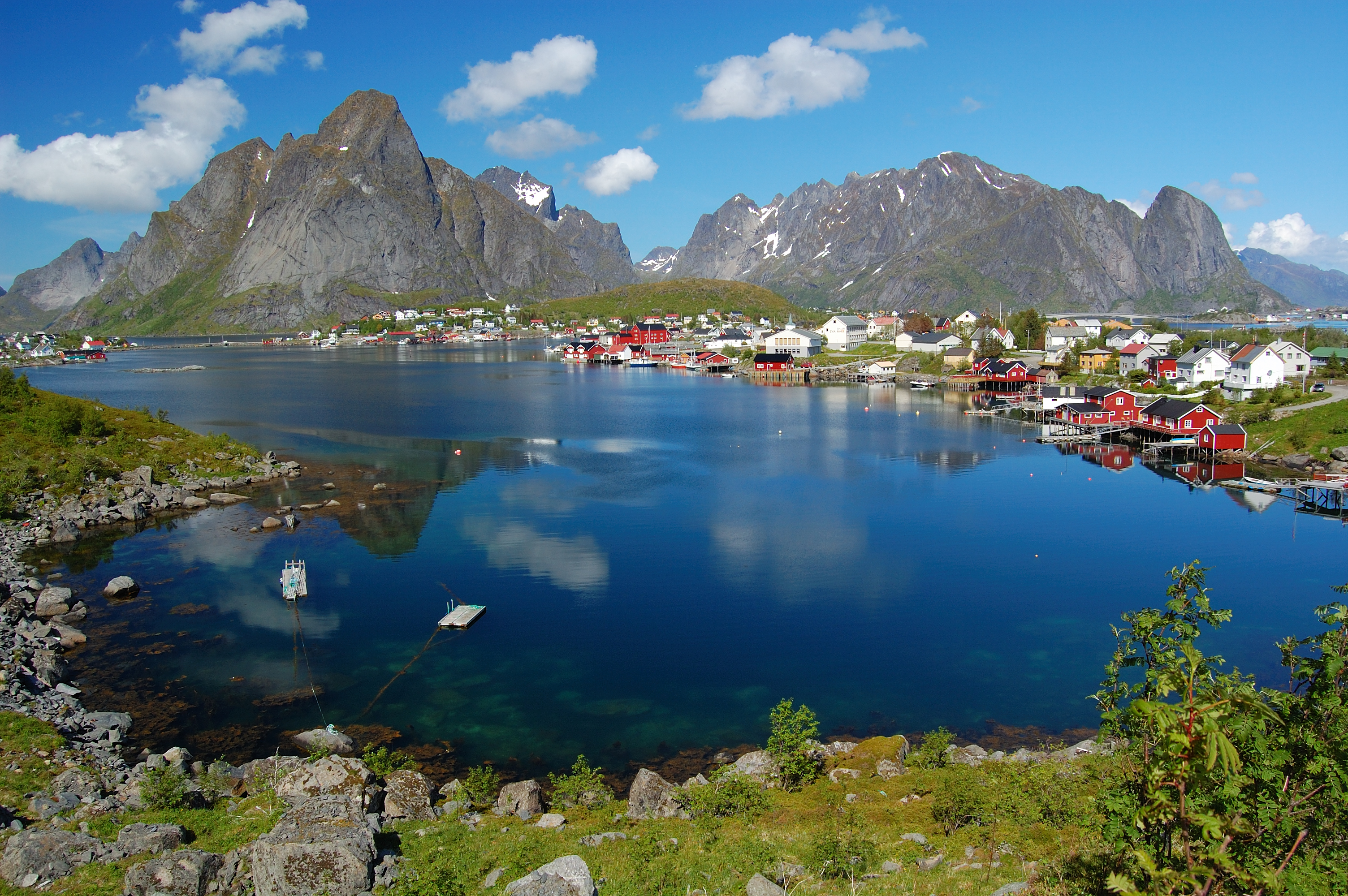 View of the small village of Reine in Lofoten, Norway.